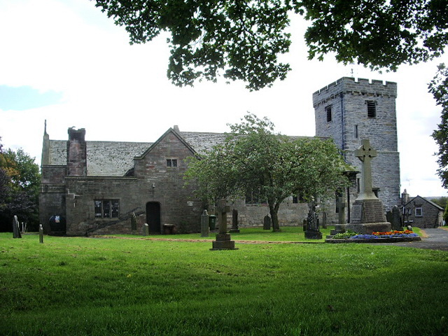 St Michaels Church, Shap with Swindale